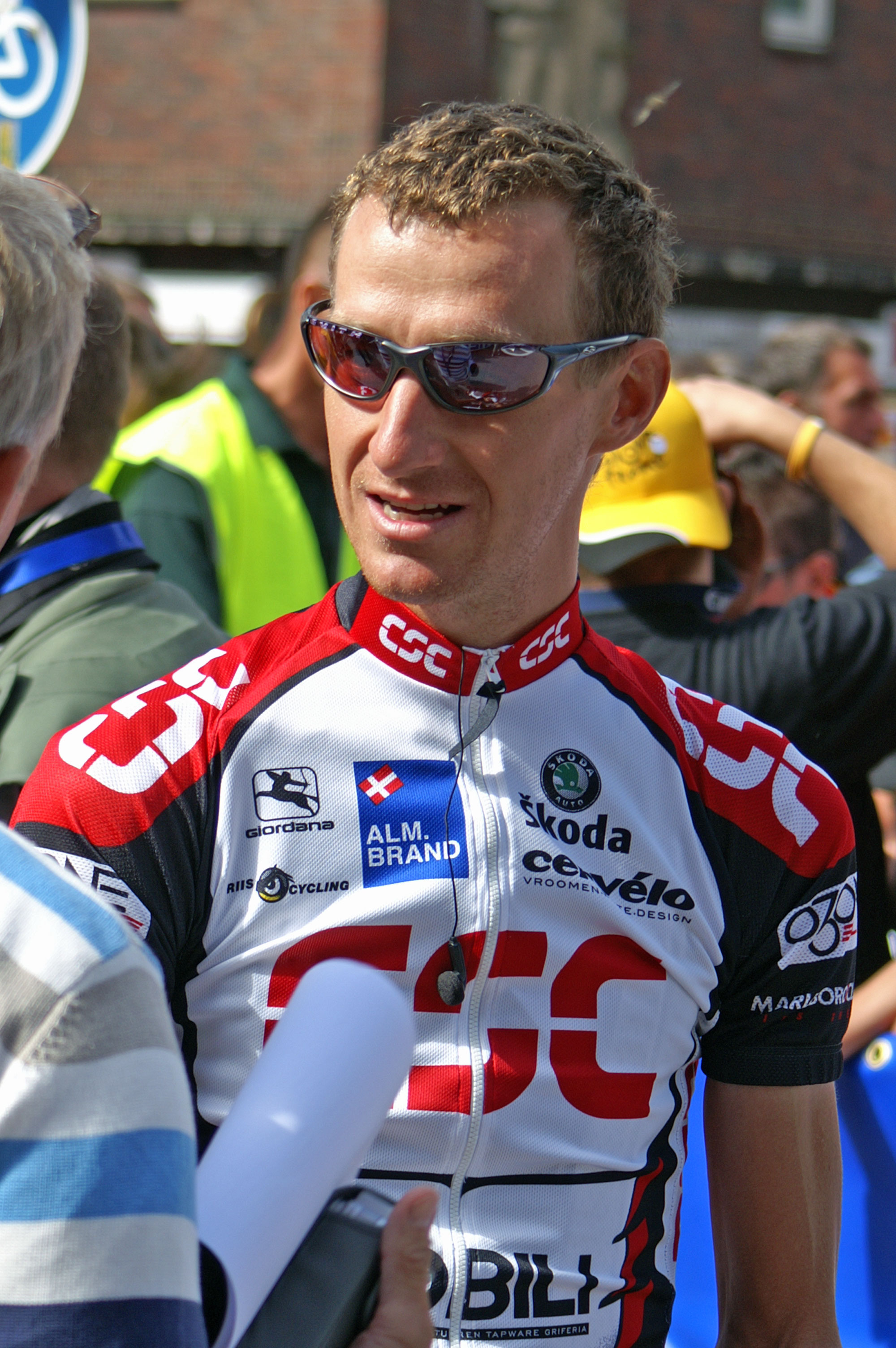 Kurt Asle Arvesen, Norwegian road bicycle racer.